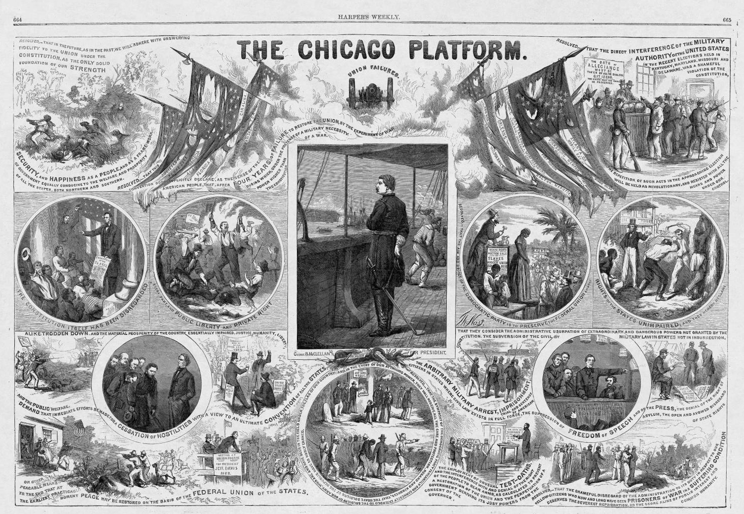 "The Chicago Platform: Union Failures" (1864), by Thomas Nast. From Harper's Weekly, October 15, 1864.